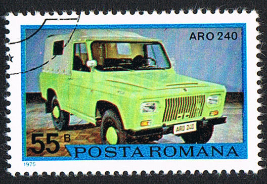 Stamp of Romania from 1975. Picture of Car model ARO 240.